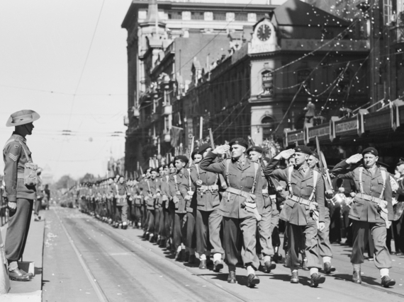 AWM Caption: MELBOURNE, AUSTRALIA. 1943-03-31. THE 9TH AUSTRALIAN DIVISIONAL CAVALRY REGIMENT PASSING THE SALUTING BASE AT THE TOWN HALL DURING THE MARCH THROUGH THE CITY OF THE 9TH DIVISION WHICH HAS RECENTLY RETURNED FROM THE MIDDLE EAST WHERE IT HAS ACHIEVED MANY VICTORIES.